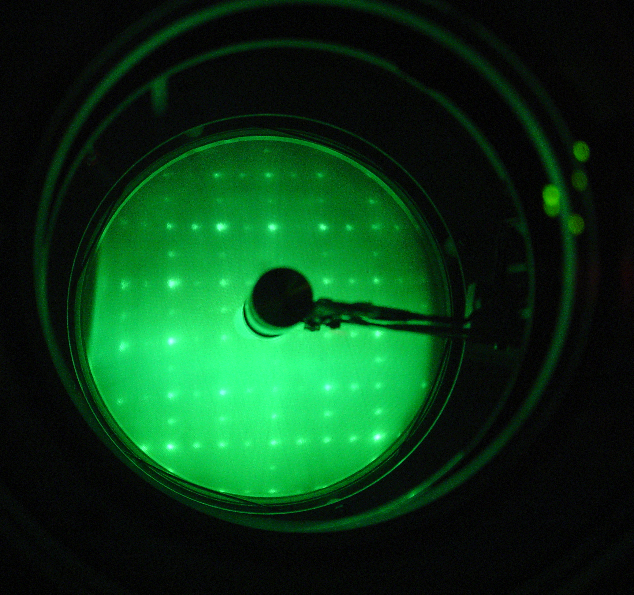 Si100Reconstructed